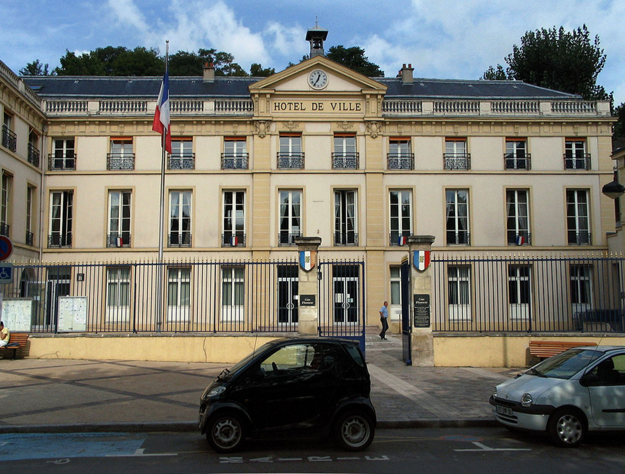 The town hall of Sèvres, Hauts-de-Seine, France.